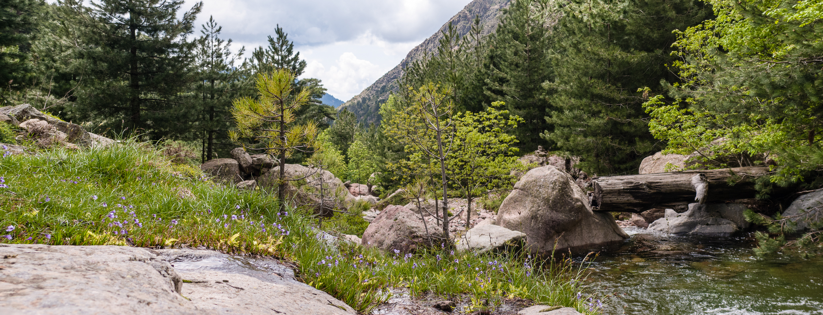 A population of flowering Pinguicula corsica along the Lonca river in northwestern Corsica, May 2013